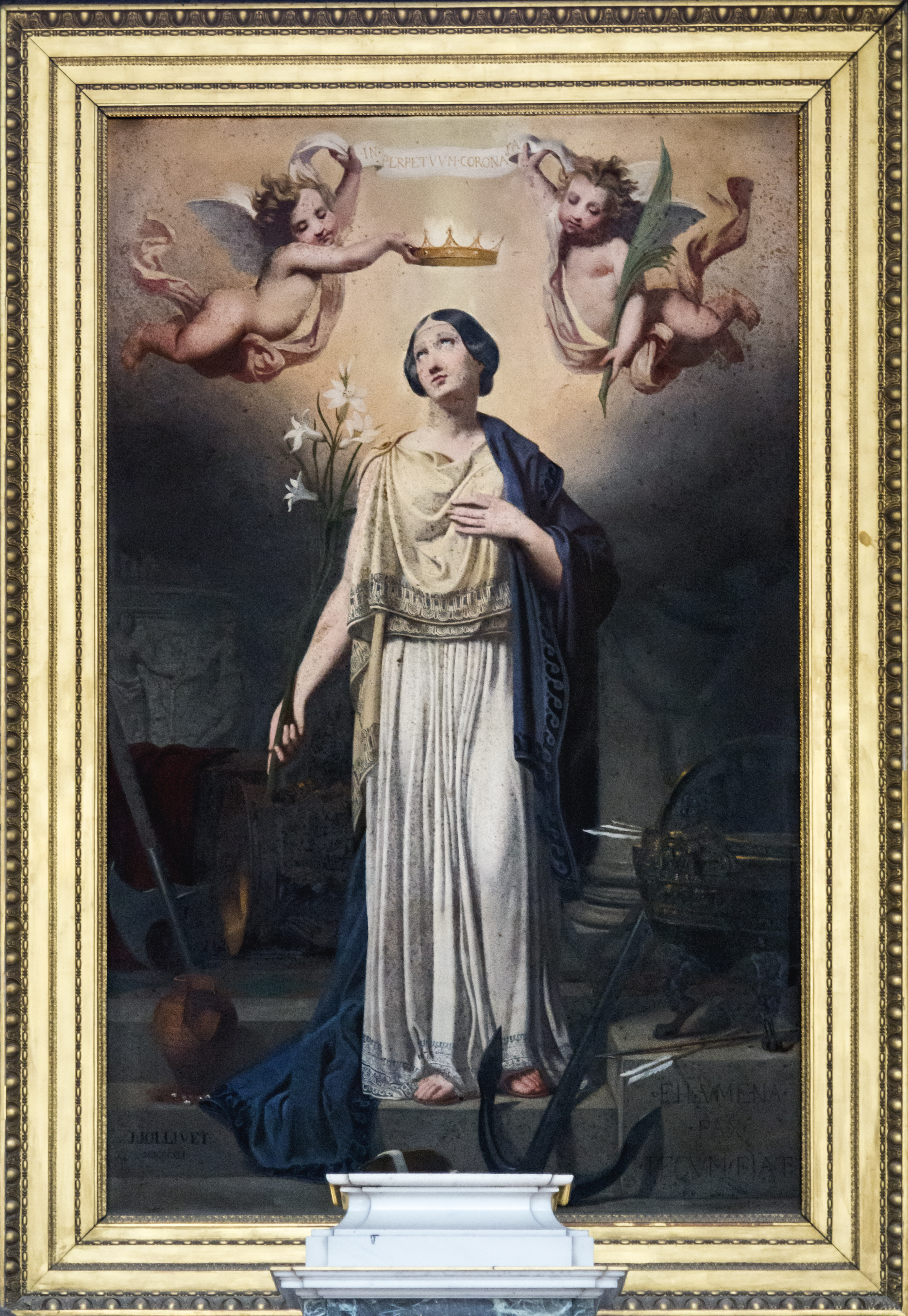 Montauban Cathedral, Tarn et Garonne, France - Oil on canvas : The Coronation of St. Philomena - by Jules Jolivet